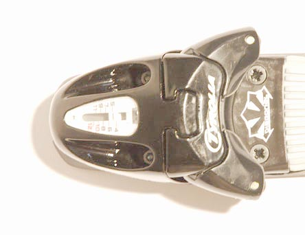 Skibinding DIN settings skale